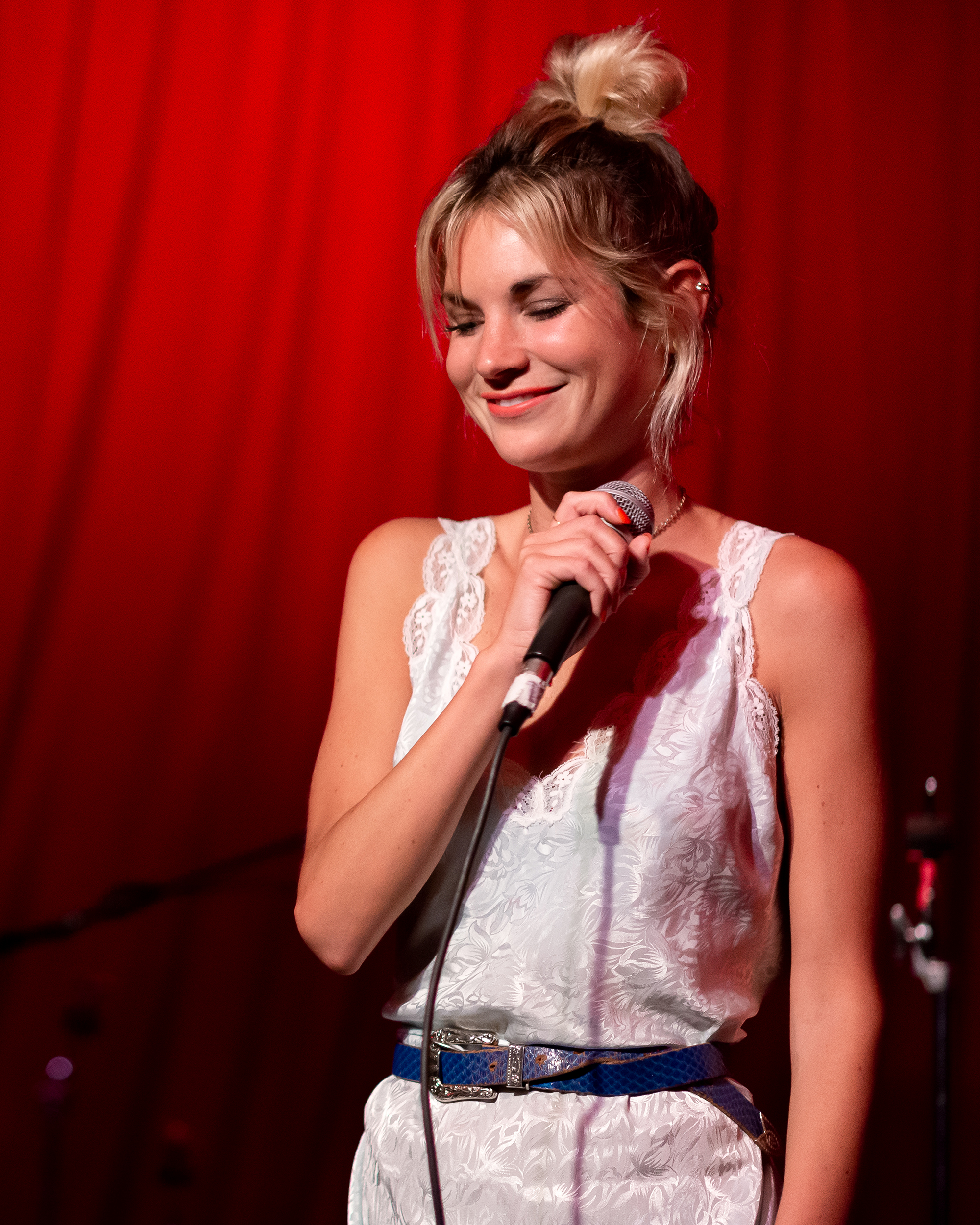 Jesse & Friends live at the Hotel Cafe in Hollywood, Los Angeles, California, on Tuesday, August 28, 2018. Featuring performances by Jesse Thomas, Cara Salimando, Cyn, Wrabel, Amy Allen, Charlotte Lawrence, and Bobi Andonov.